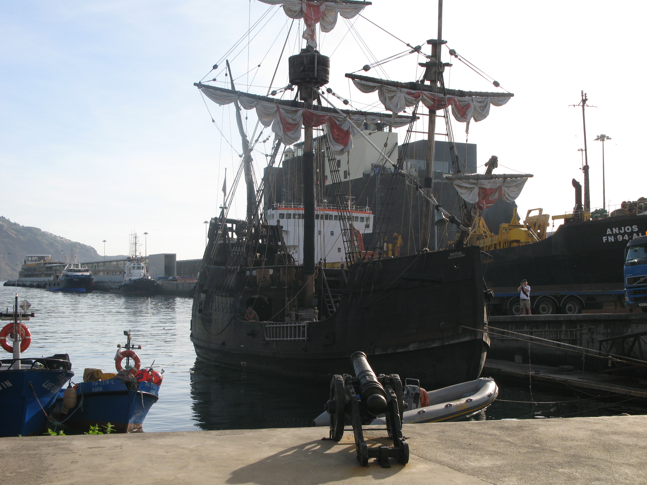 A copy of Columbus's ship Santa Maria in Funchal, Madeira